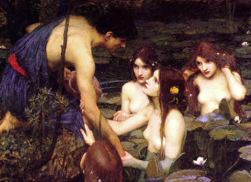 Detail of Image:John William Waterhouse - Hylas and the Nymphs (1896).jpg